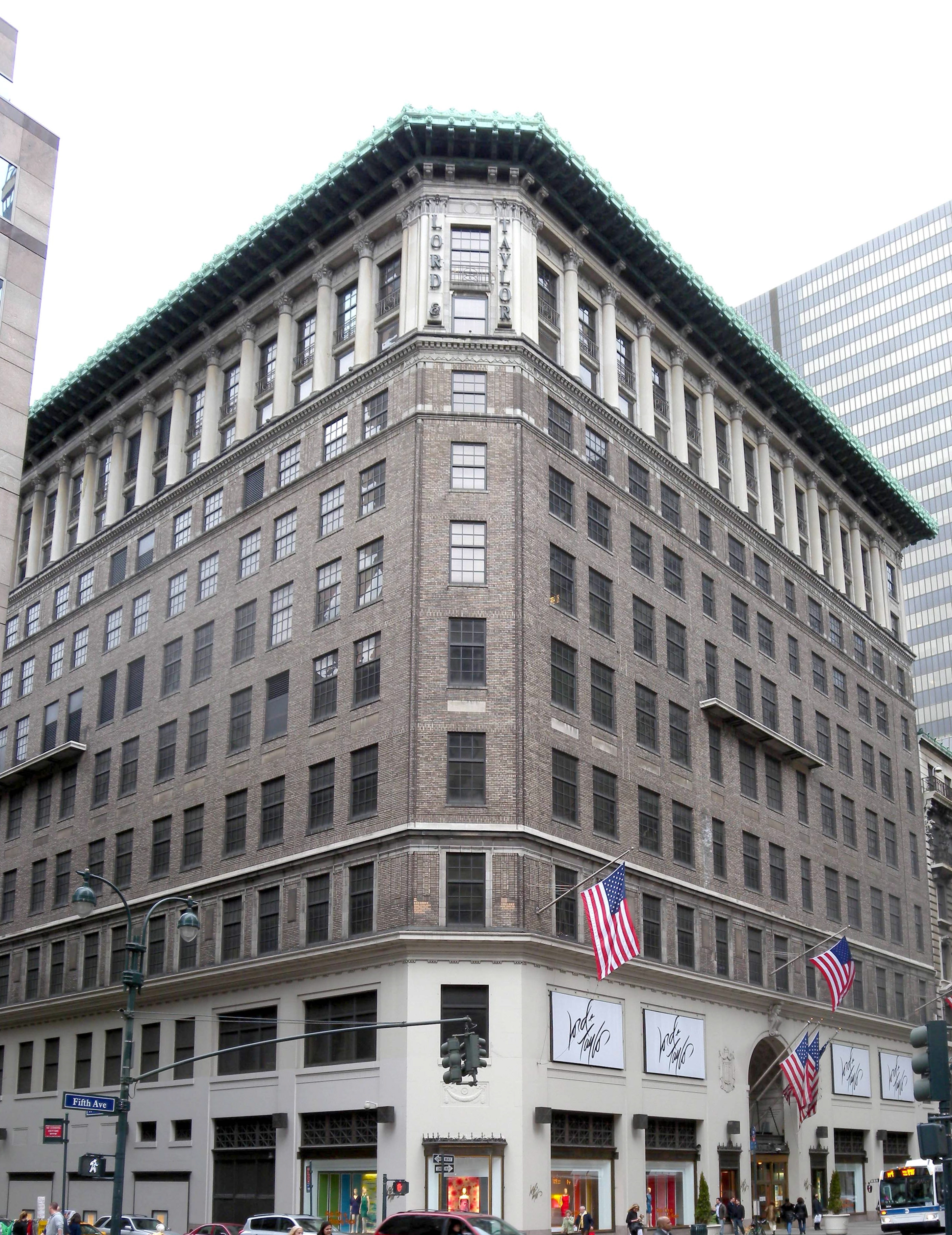 Looking northwest across 5th Avenue and 38th Street at Lord & Taylor on a cloudy midday. See also File:Lord and Taylor.jpg